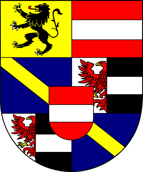 Coat of arms (shield only) of Johann Ernst von Thun und Hohenstein, bishop of Seckau, Austria (1679 - 1687), archbishop of Salzburg, Austria (1687 - 1709).